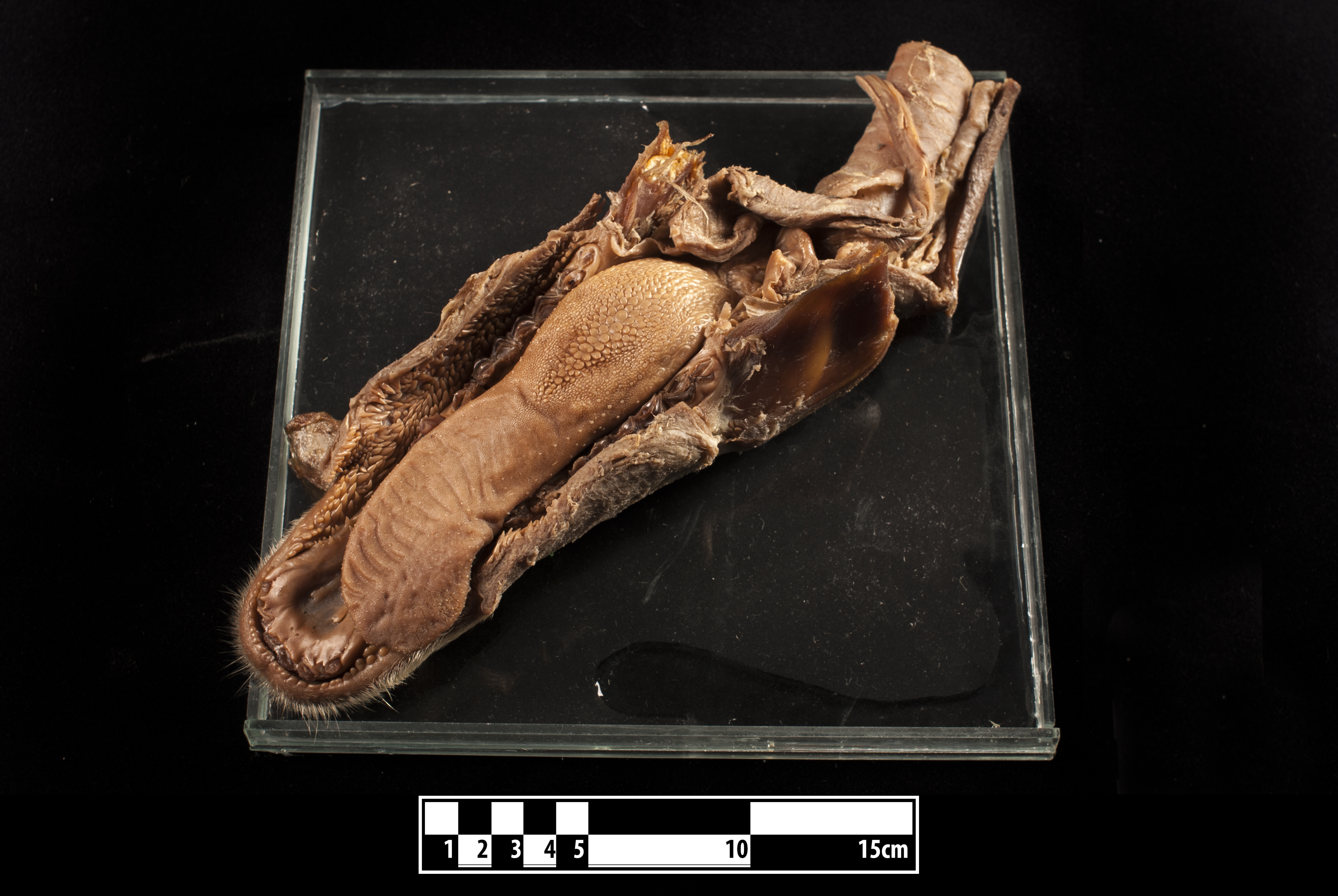 Tongue of goat. Capra aegagrus hircus Technique of glycerination on display at the Museum of Veterinary Anatomy FMVZ USP. This file was published as the result of a partnership between the Museum of Veterinary Anatomy FMVZ USP, the RIDC NeuroMat and the Wikimedia Community User Group Brasil. This GLAM project is reported. Photography: Museum of Veterinary Anatomy FMVZ USP. Author: Wagner Souza e Silva.